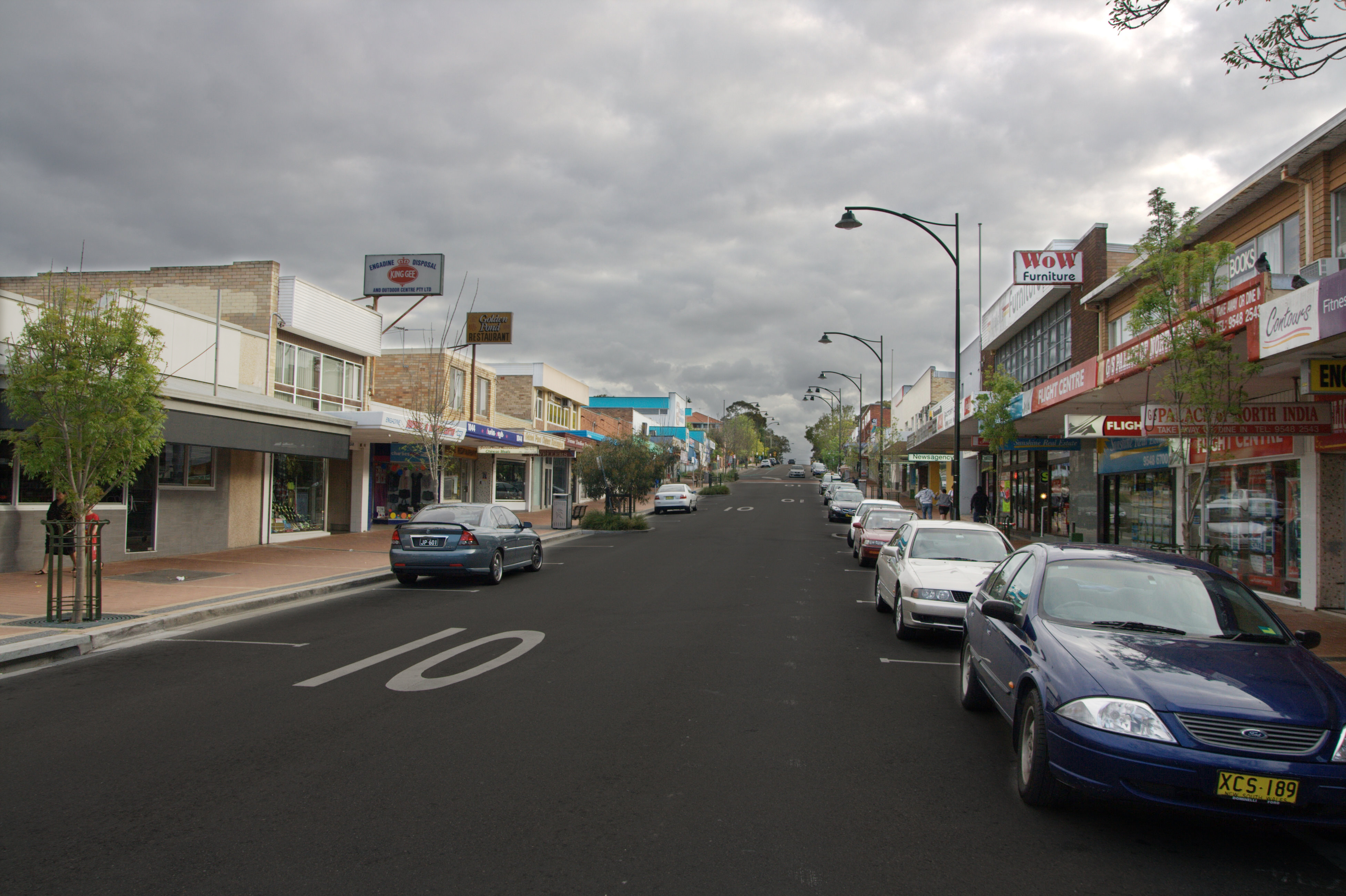 Old Princess Hwy, Engadine, NSW